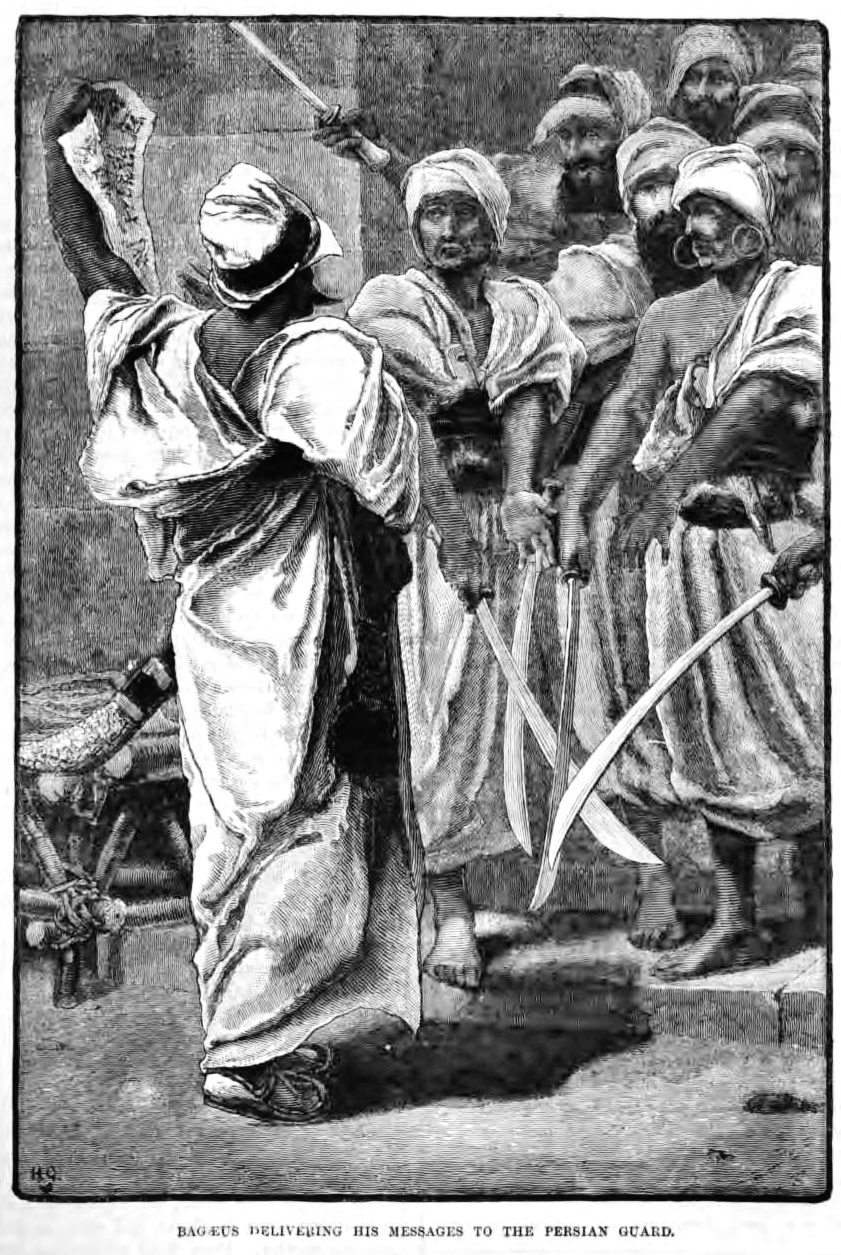 Bagaeus delivering his messages to the Persian guard